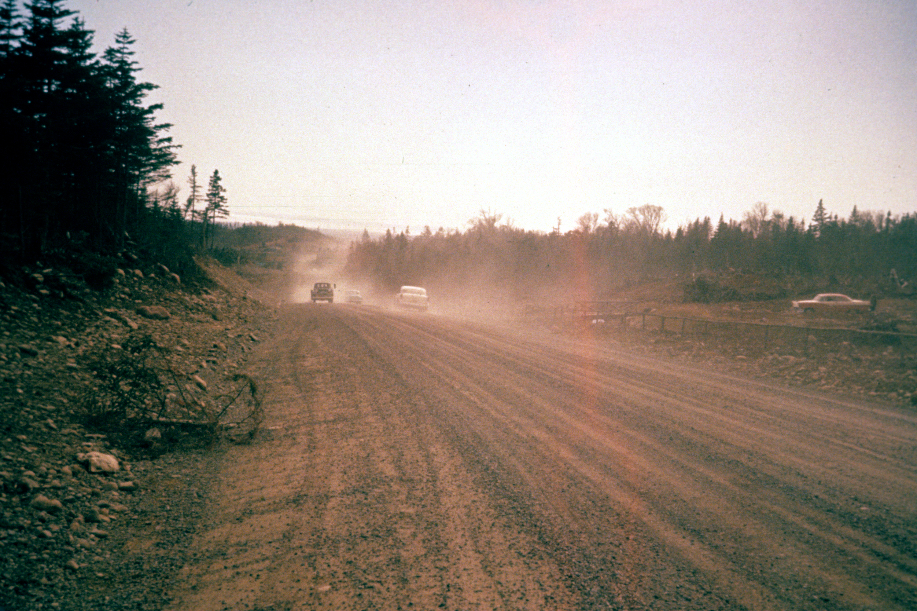 Hanson Memorial Highway, Stephenville, Newfoundland